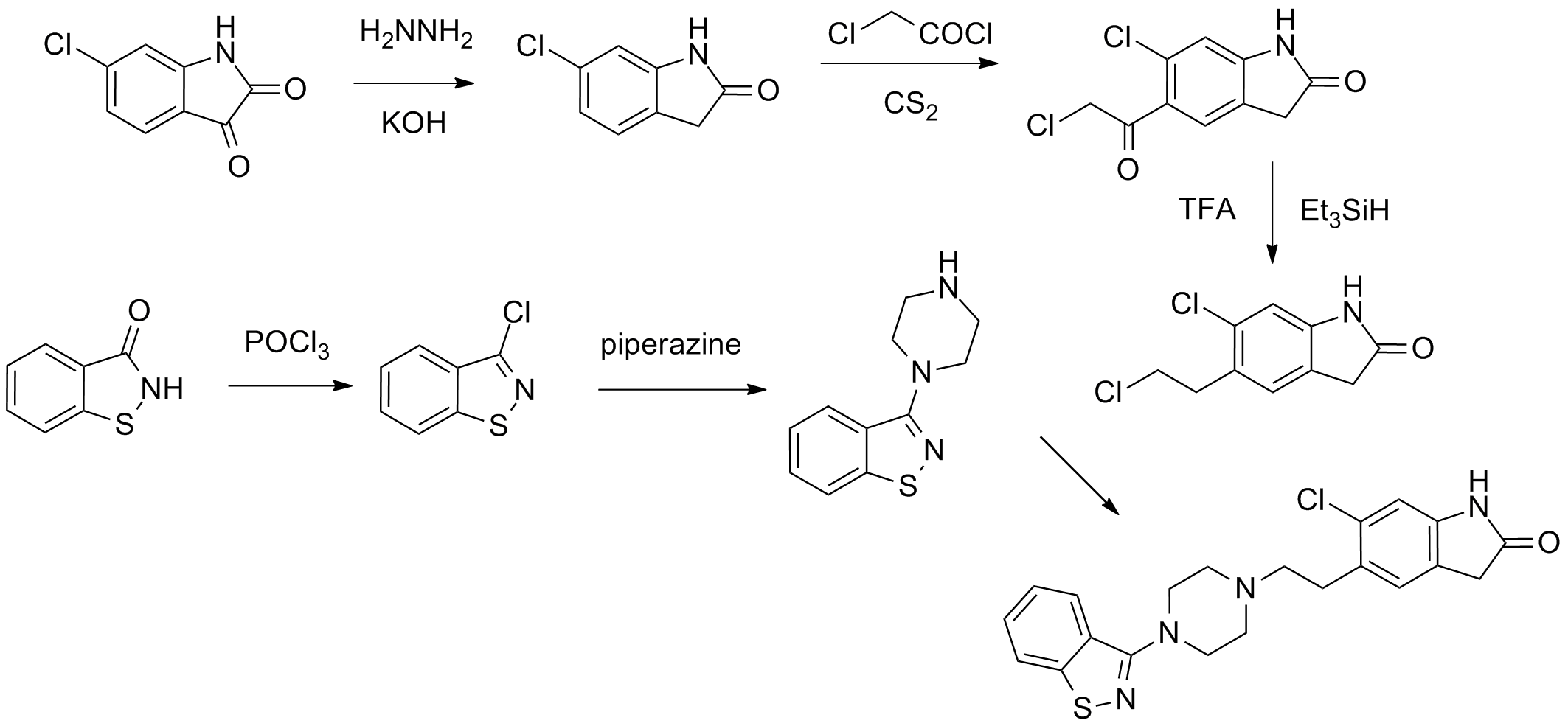 US4831031